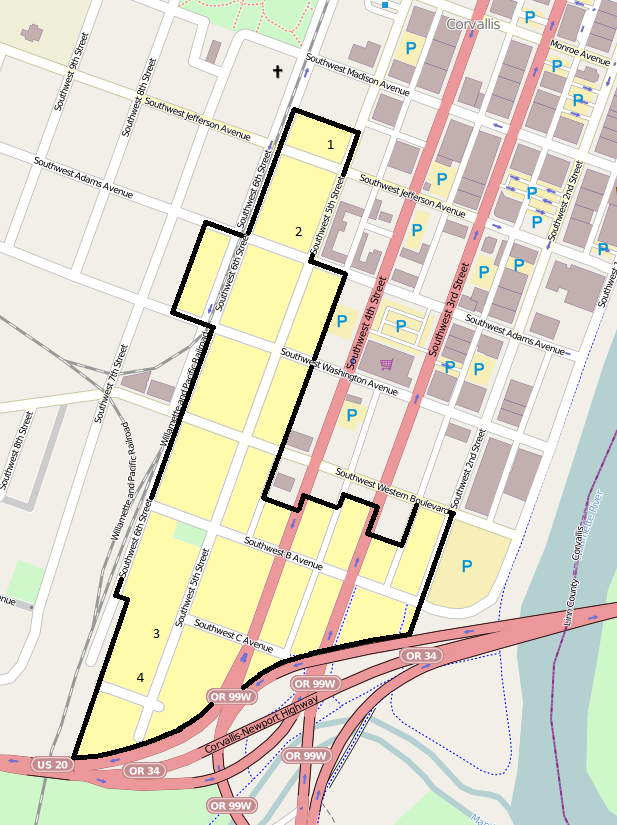 Map showing the boundaries of the Avery–Helm Historic District in Corvallis, Oregon, United States. The historic district is listed on the US National Register of Historic Places. Boundary data is derived from the historic district's National Register nomination form. Black boundary/yellow area: Avery–Helm Historic District boundaries. Numbers: Represent the locations of contributing resources in the historic district that are also listed individually on the National Register: Dr. Henry S. Pernot House James O. Wilson House Jack Taylor House Helm–Hout House